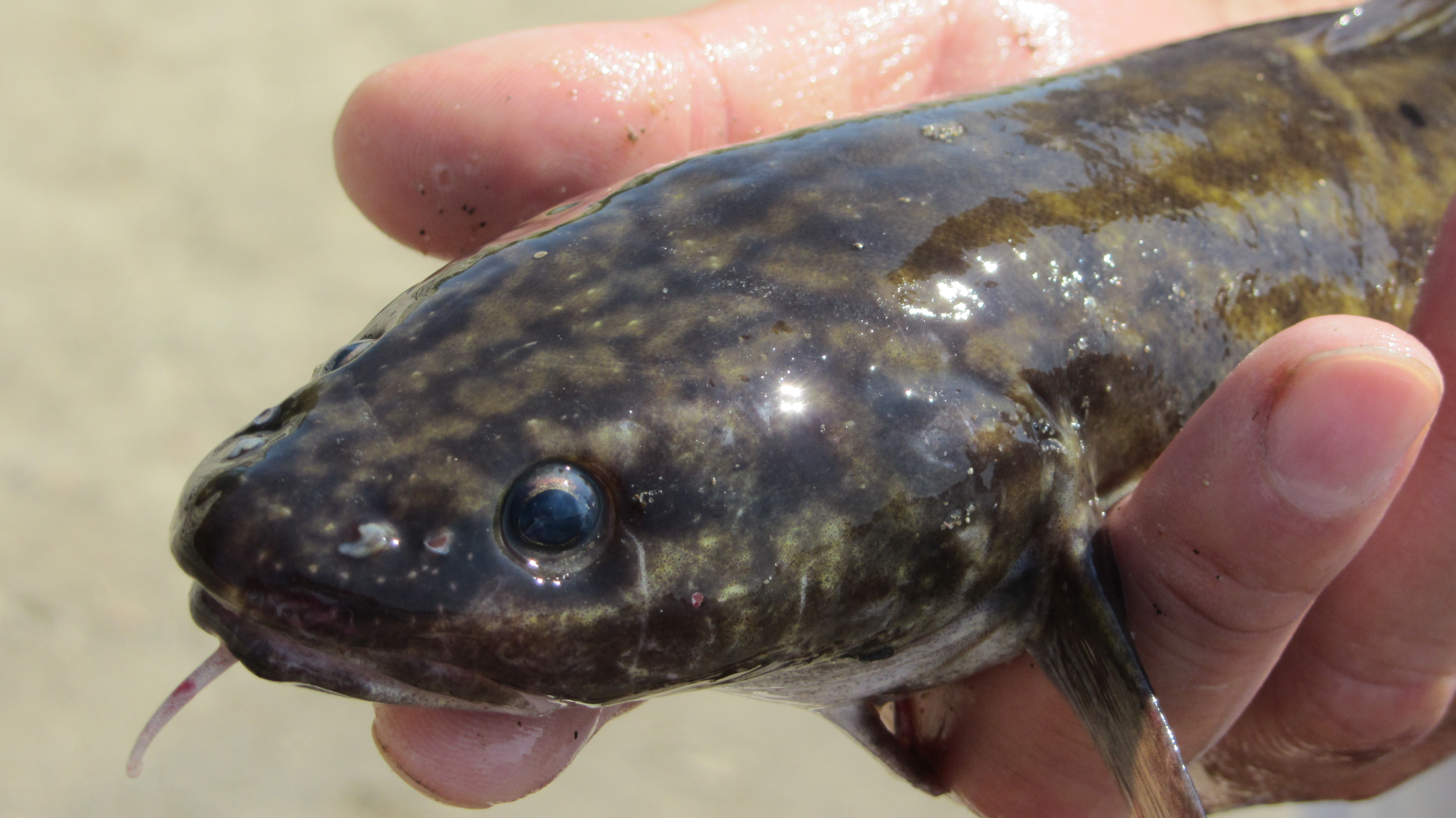 Lota Lota catched near Vidin, Bulgaria